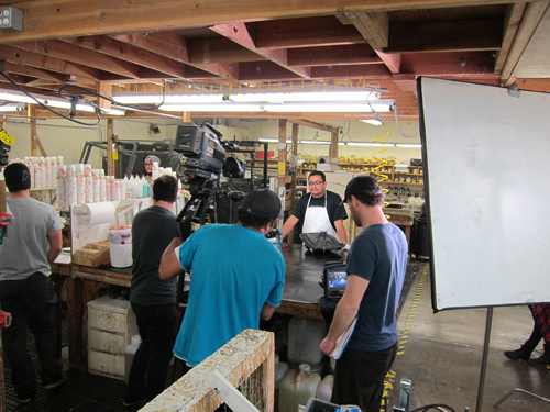 Bone Clones appearing on How It's Made